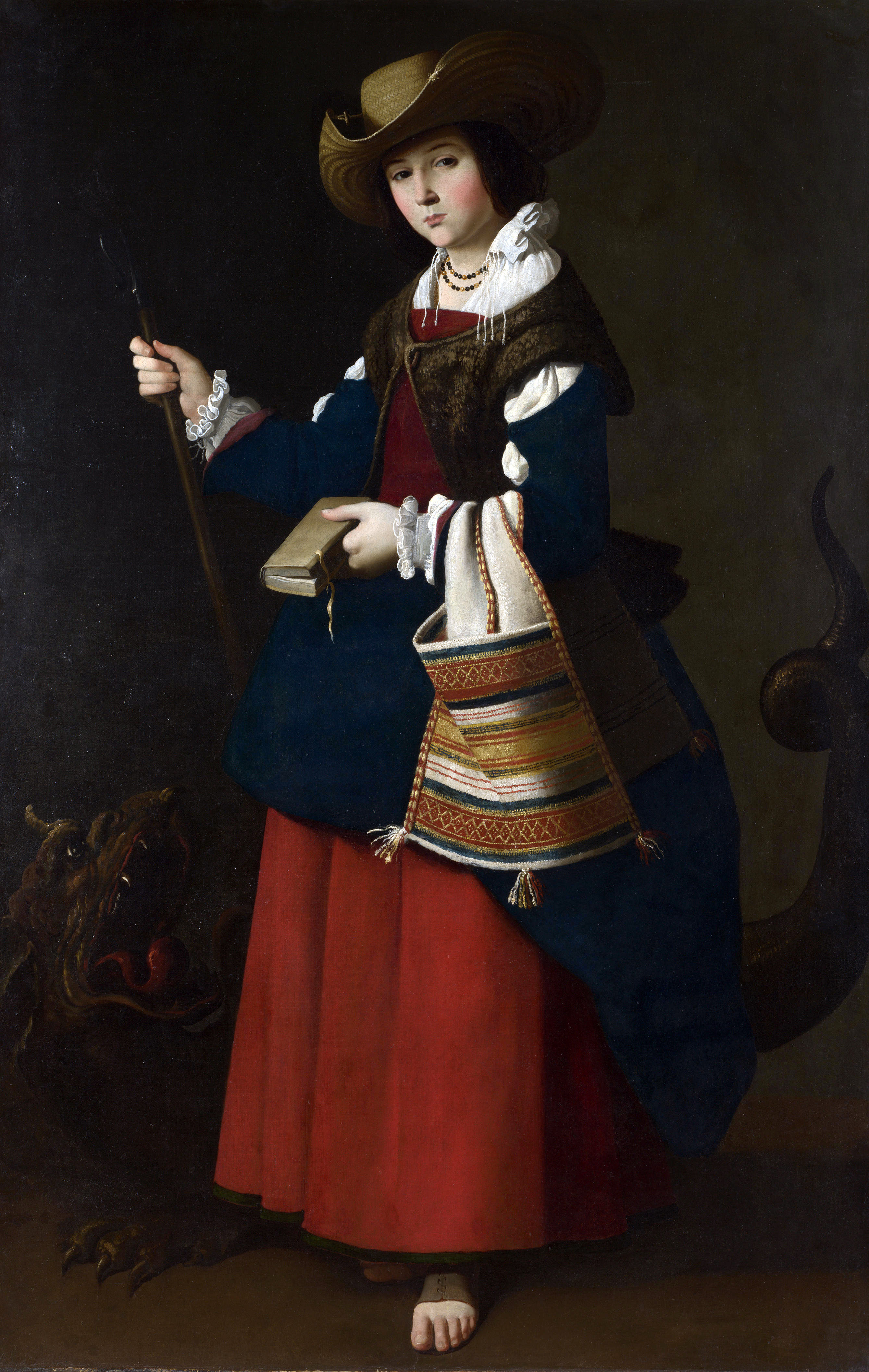 She is dressed as a shepherdess.